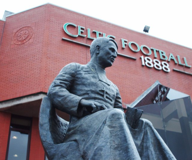 Brother Walfrid Statue, Celtic Park Brother Walfrid founded Celtic football Club to help the poor and deprived of glasgow's east end. This statue was unveiled in 2005.